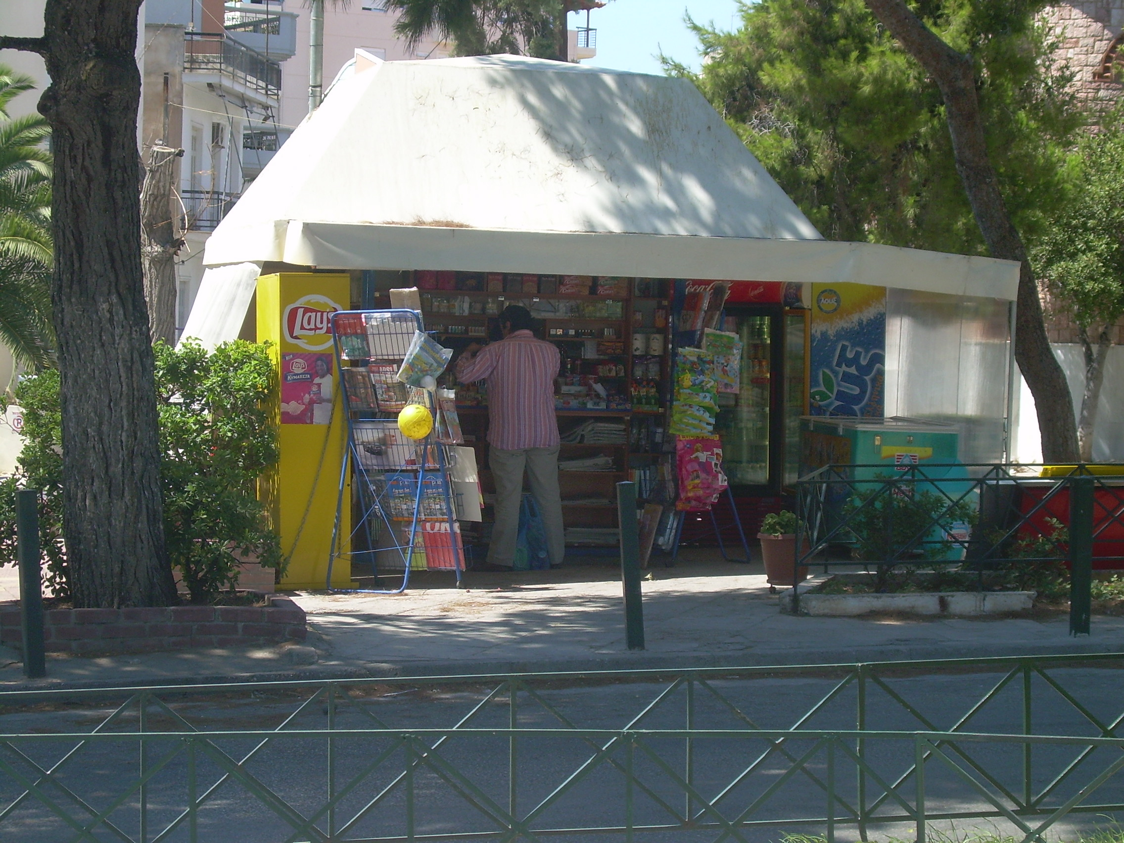 Periptero, kiosk in Greece